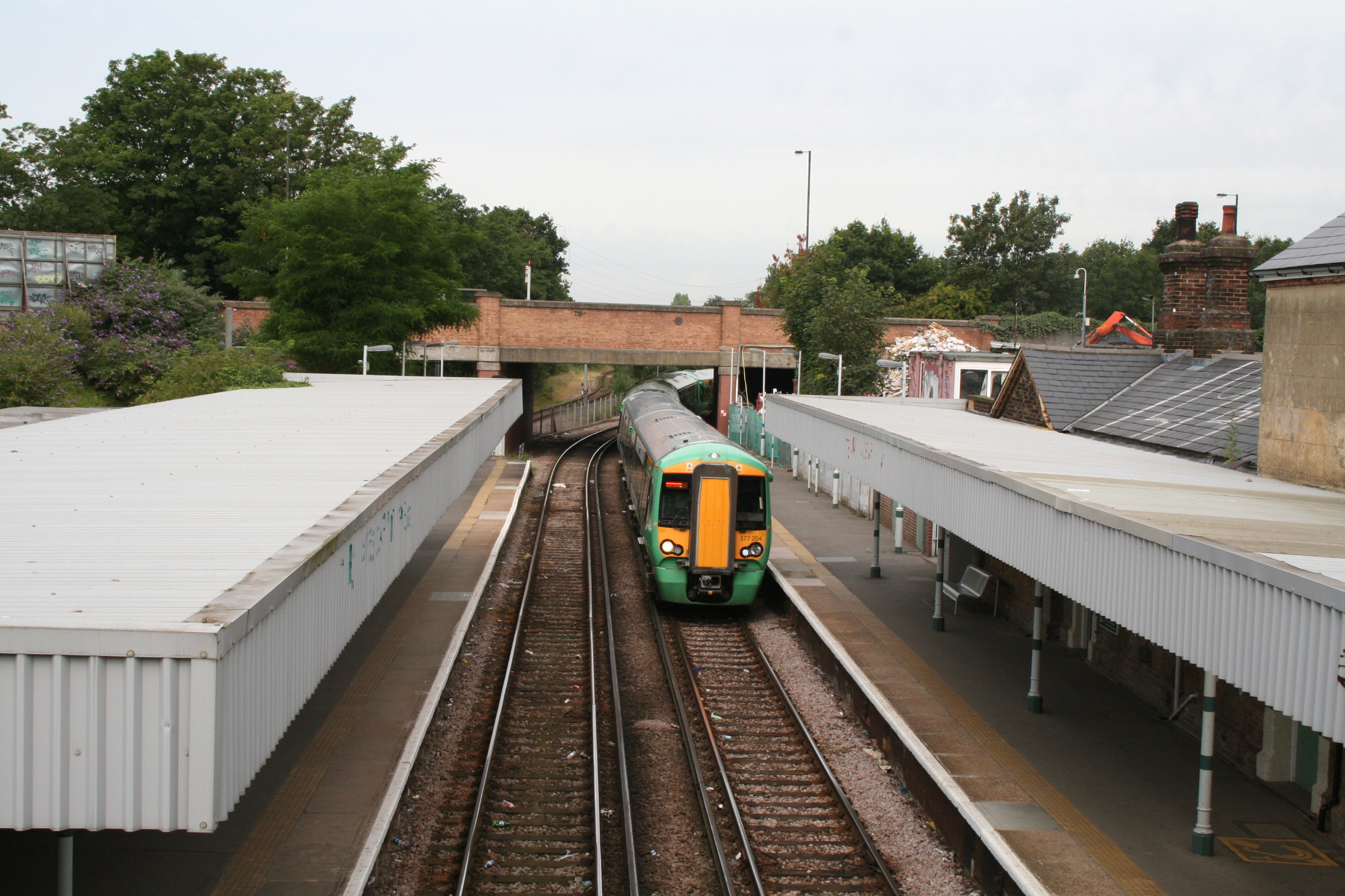 Micham Junction station A Class 377 unit destined for Dorking enters Mitcham Junction station